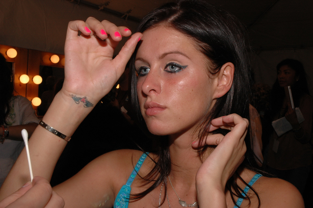 Model and socialite Nicky Hilton, one of the heirs to the Hilton hotel fortune.Nicky Hilton